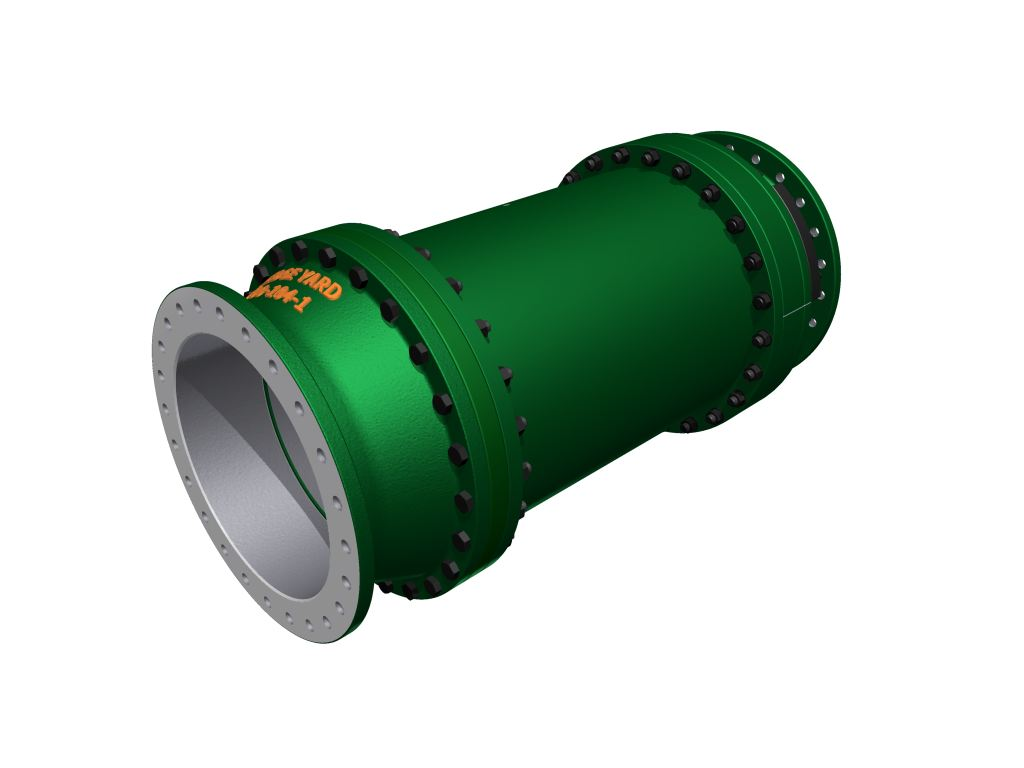 Dredge turning gland designed by using the latest 3D CAD technologies